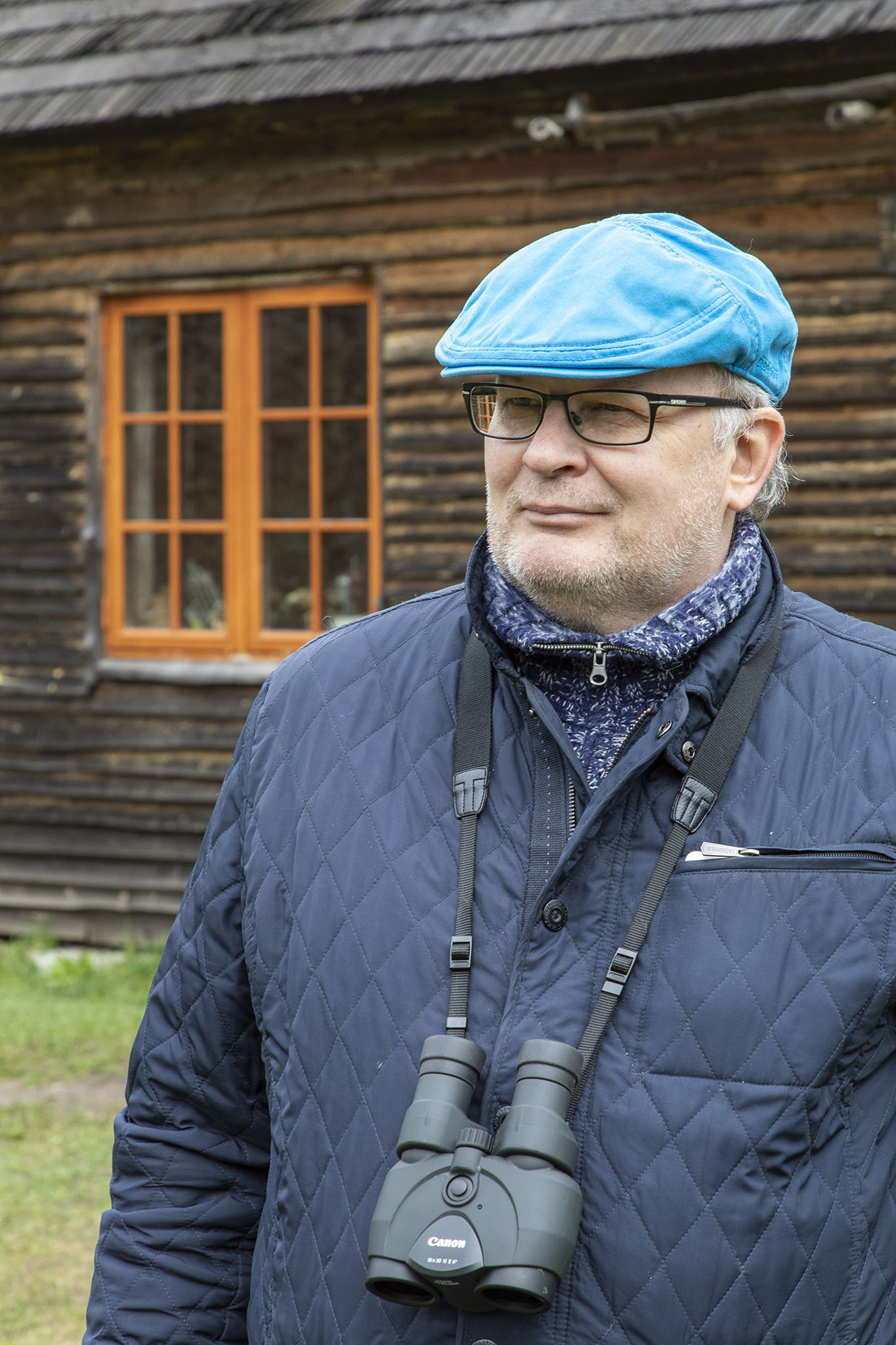 Harrastusornitoloog Peep Veedla aprillis 2018